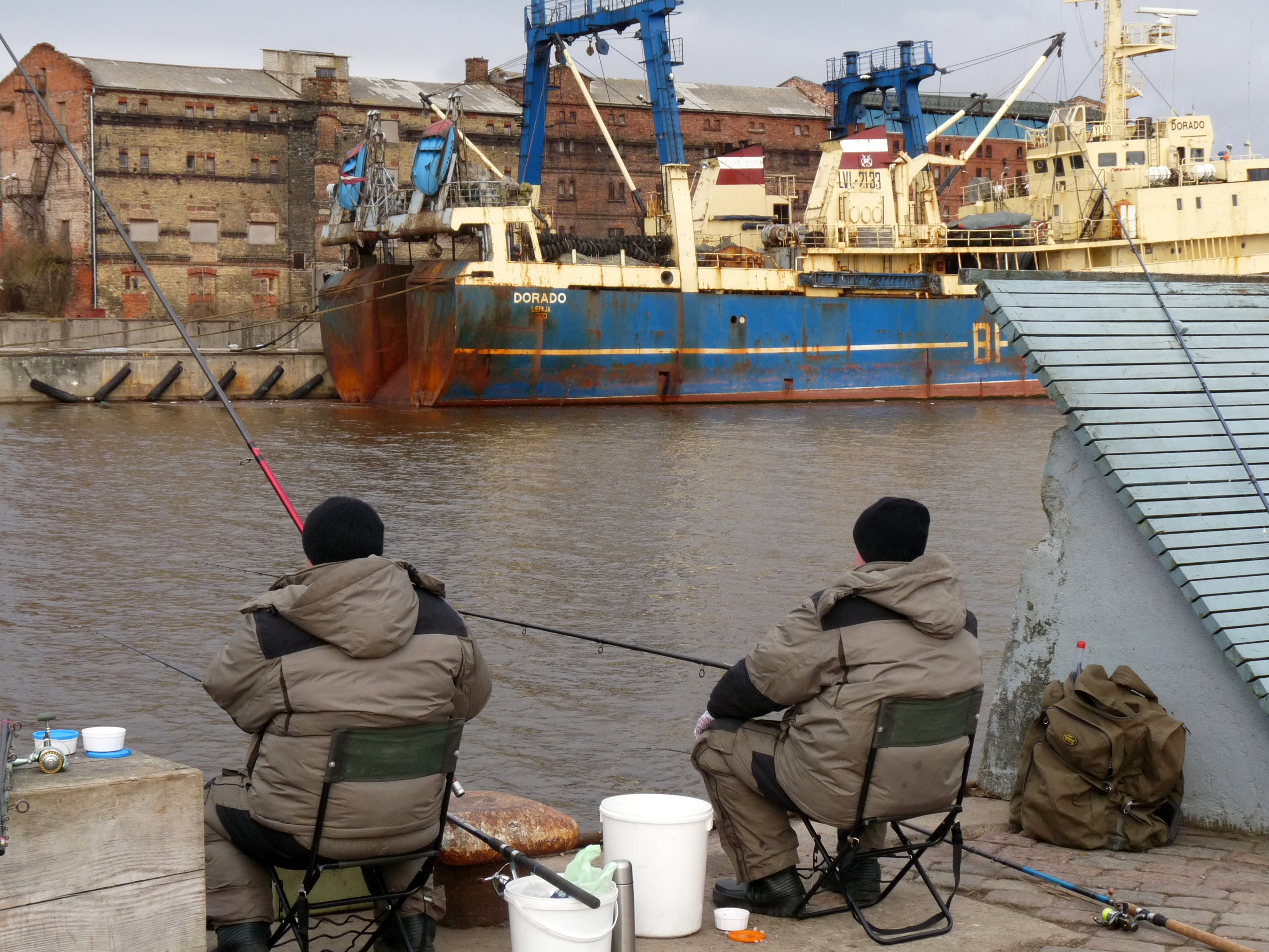 Fishers in Liepaja, Latvia